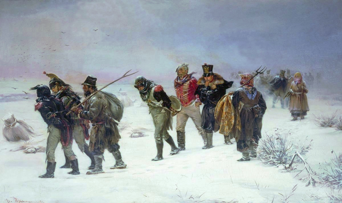 French retreat from Russia in 1812